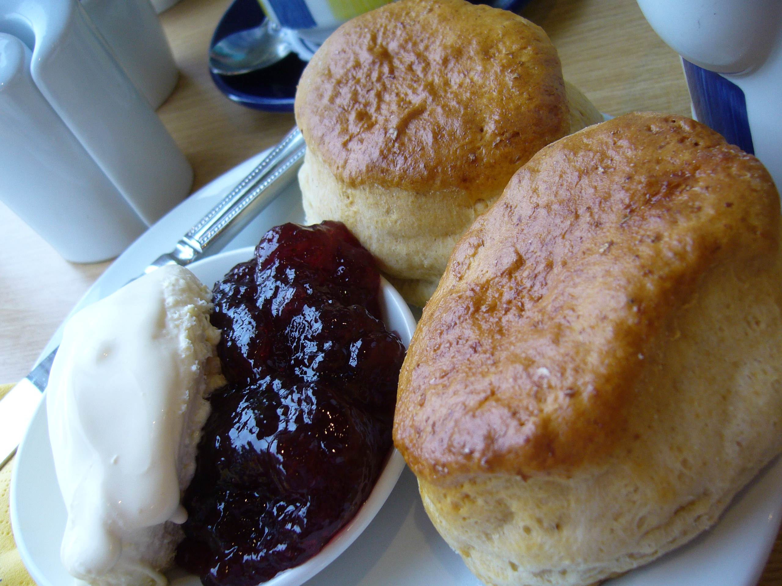 Devon cream tea